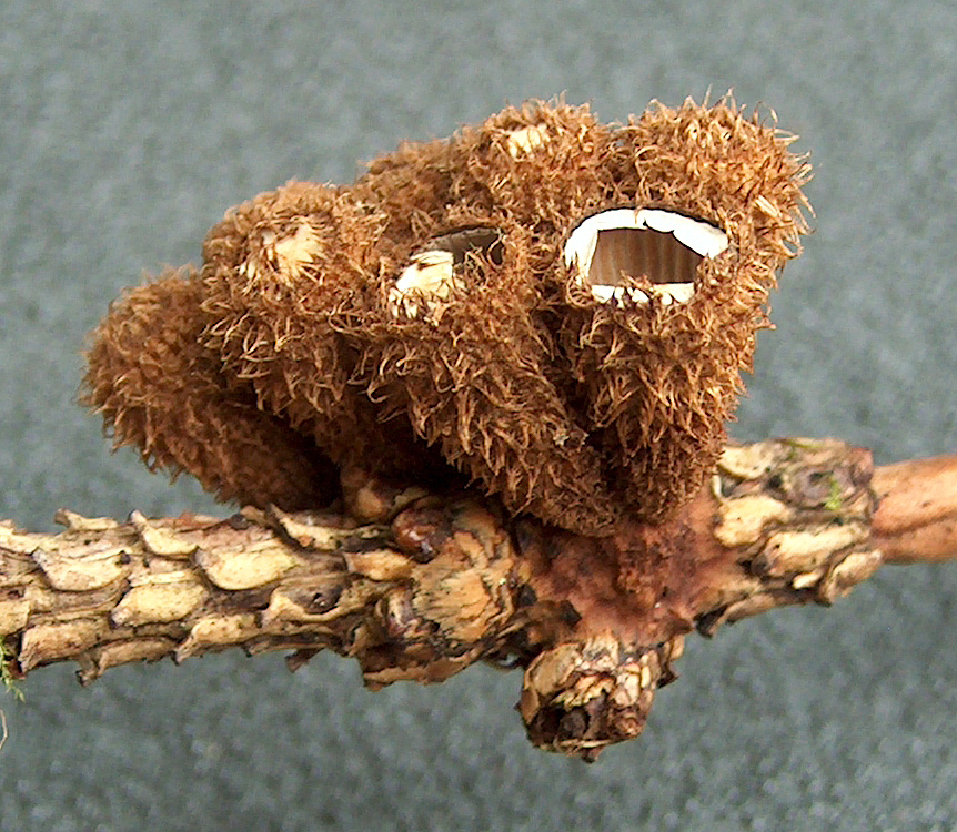 Cyathus striatus, Bird's Nest Fungus - Kerava, Finland